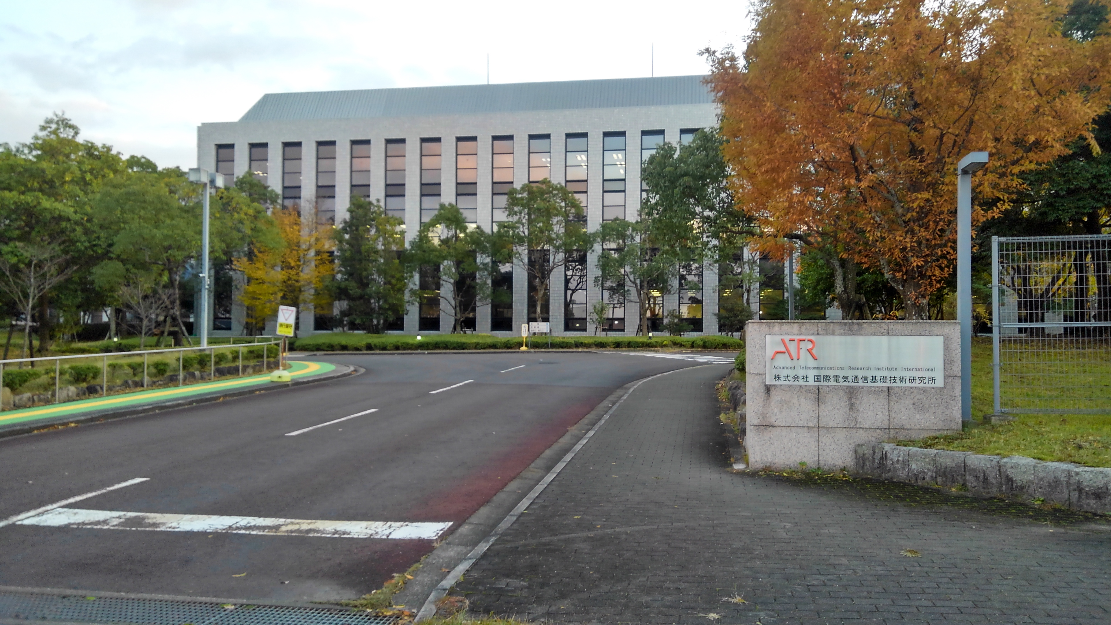 Advanced Telecommunications Research Institute International